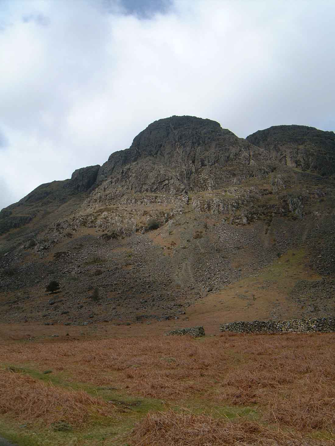 Personal photograph taken on April 15th 2005.